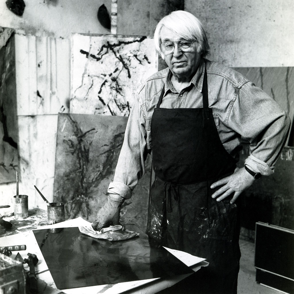 Hans-Jürgen Schlieker in his studio in Bochum, Germany